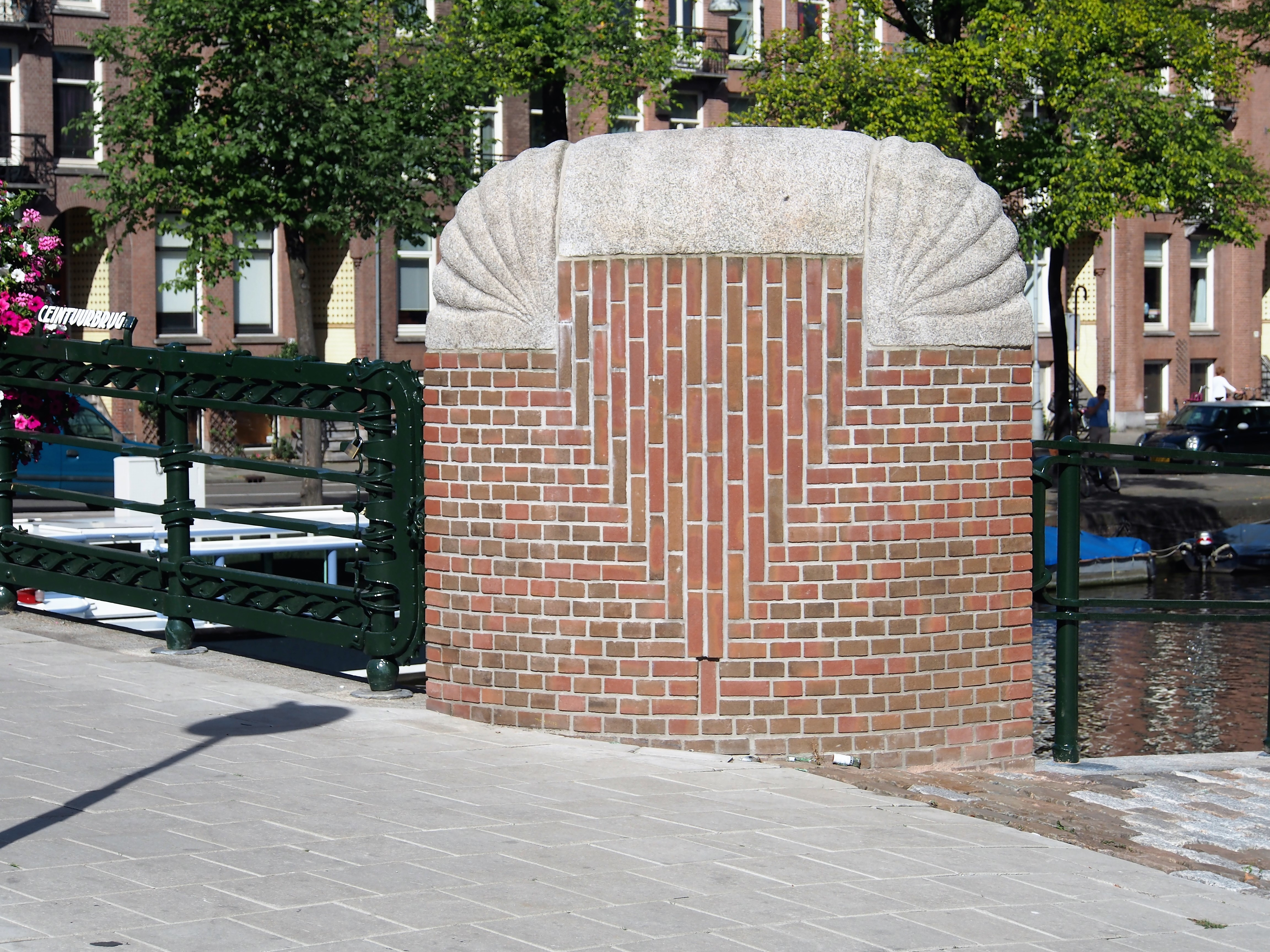 Photographed in Amsterdam.